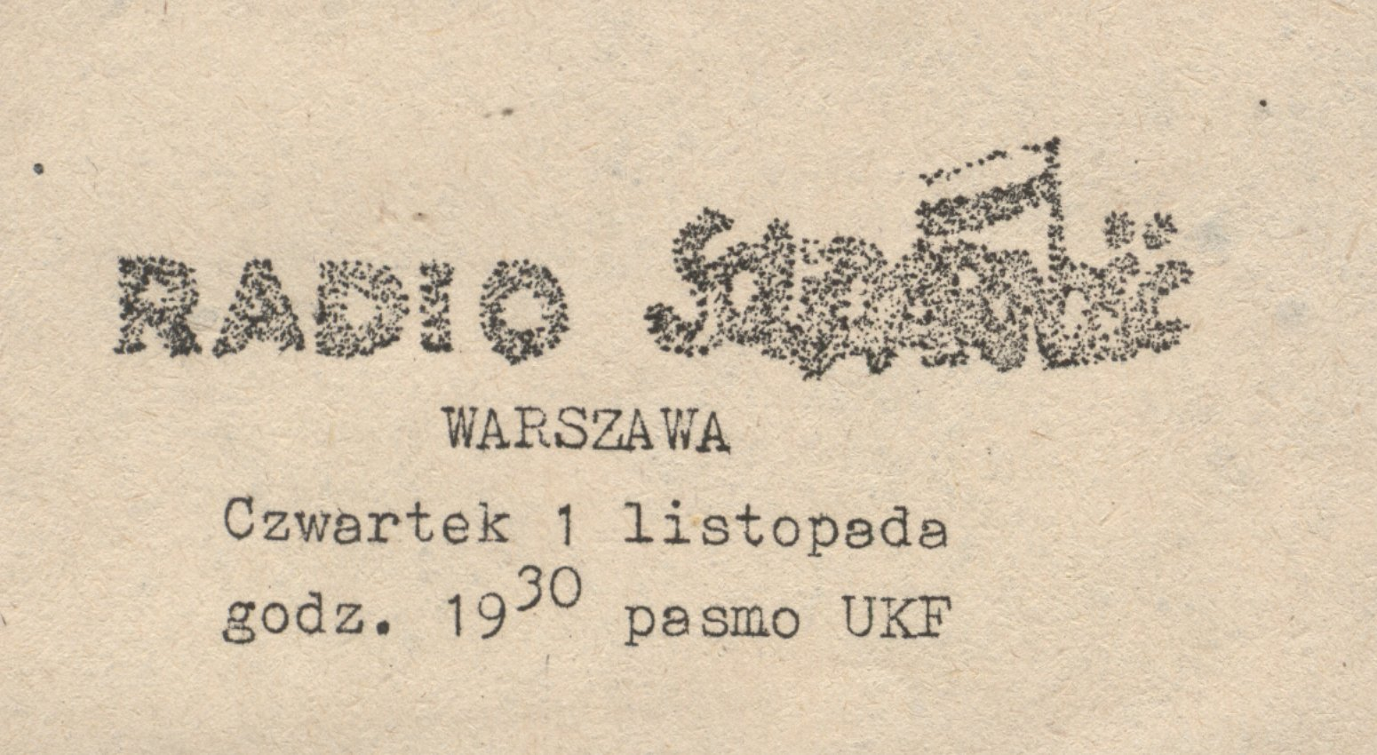 A flyer informing about date and hour of Radio Solidarity broadcast. Flyer have been printed in illegal printing house of TKOS.